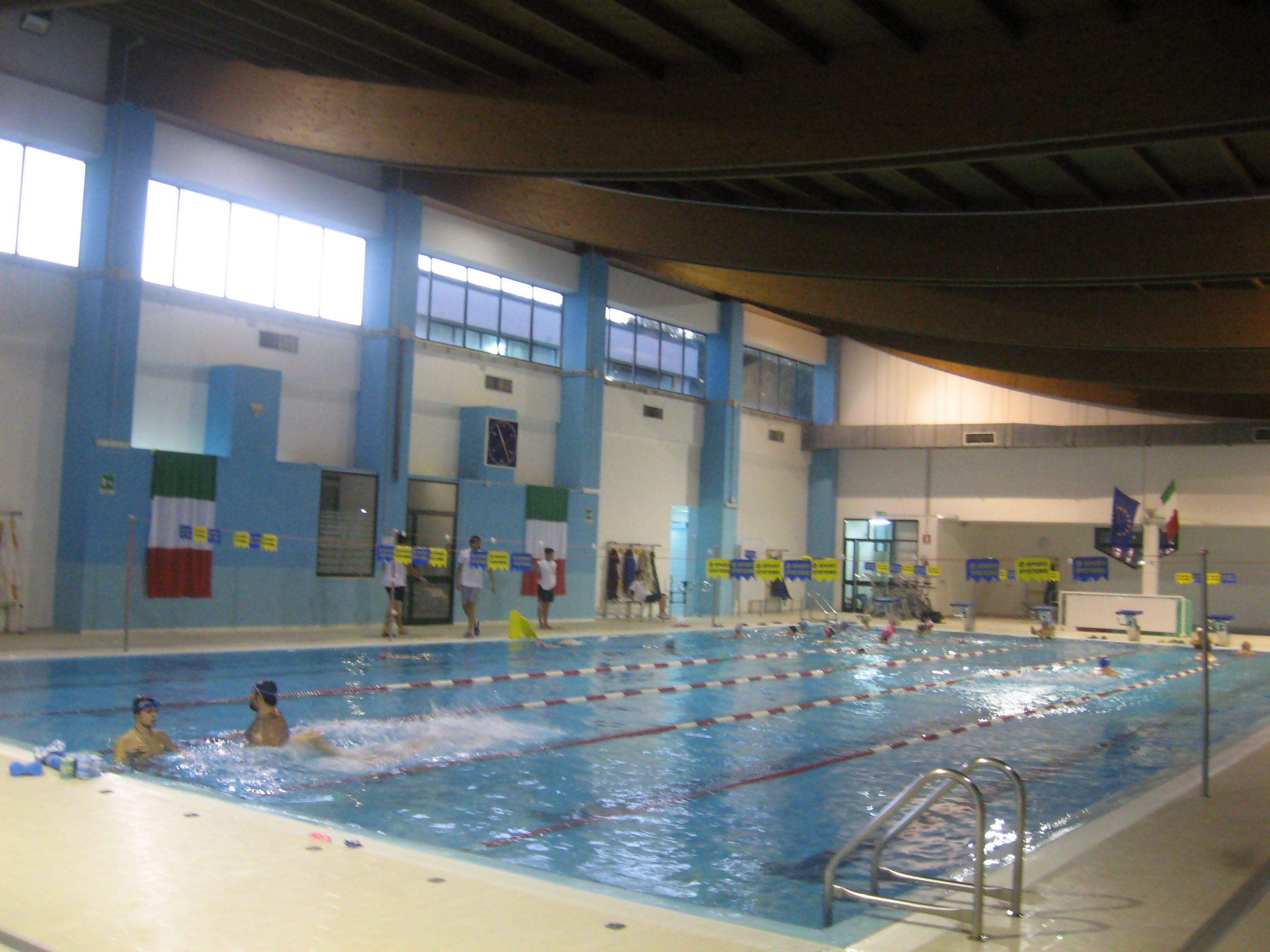 Swimming pool in Ruvo di Puglia